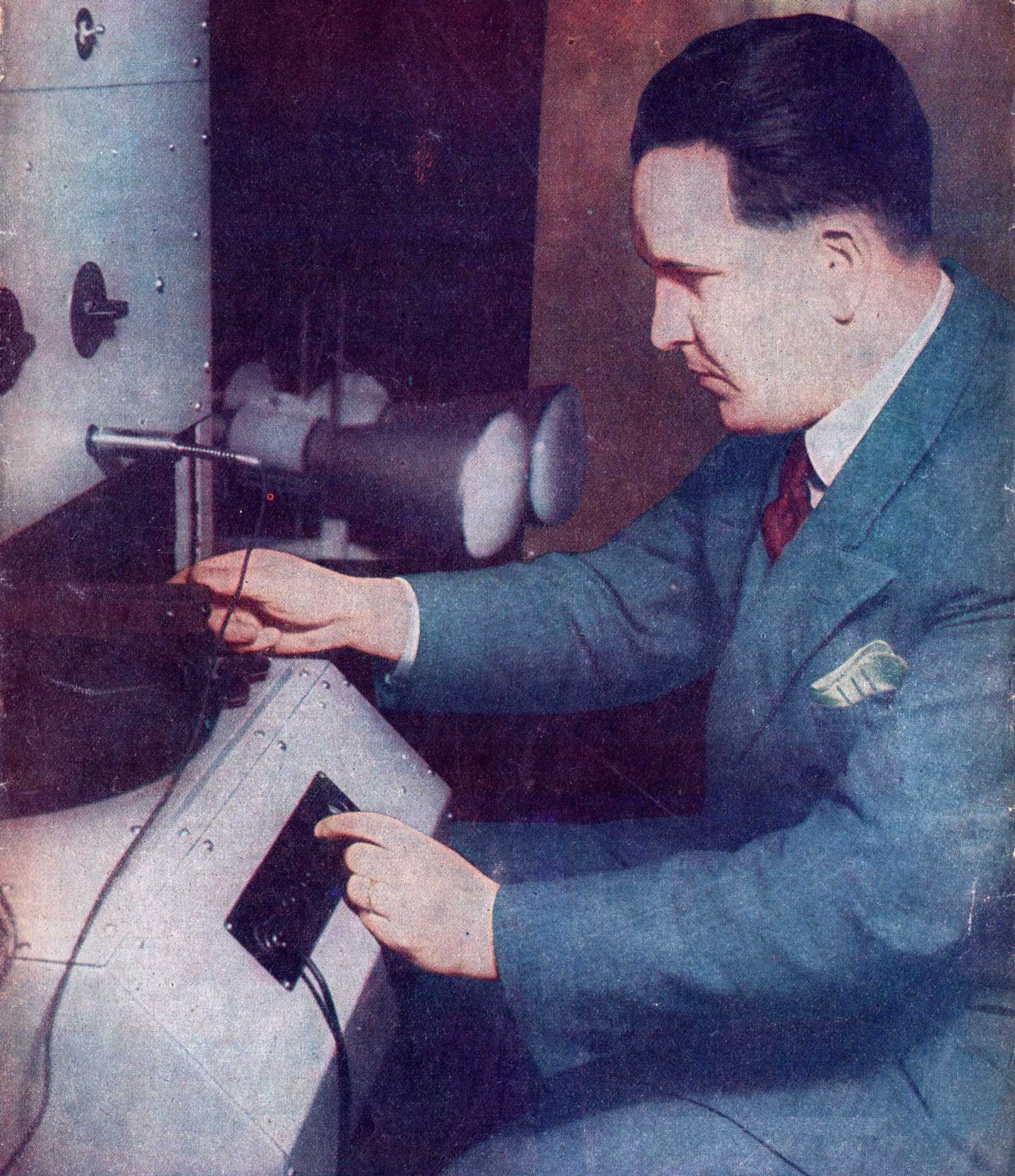 Photograph of the Finnish professor of phonetics Antti Sovijärvi (1912–1995) with an oscillograph.